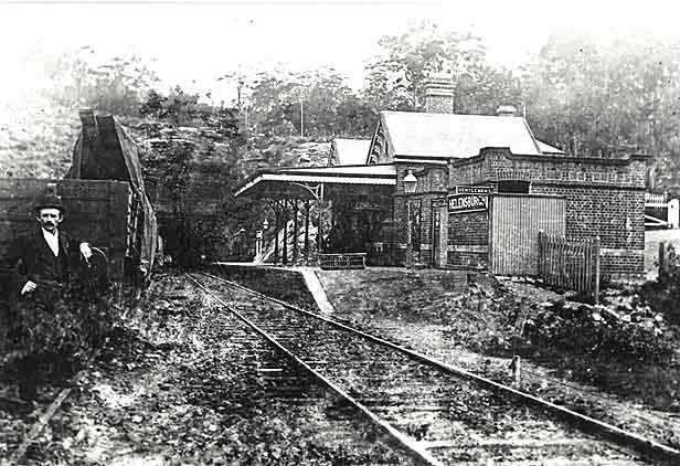 Helensburgh Railway Station Dated: c.1880 Digital ID: 17420_a014_a014000830 Rights: We'd love to hear from you if you use our photos. Many other photos in our collection are available to view and browse on our website using Photo Investigator.